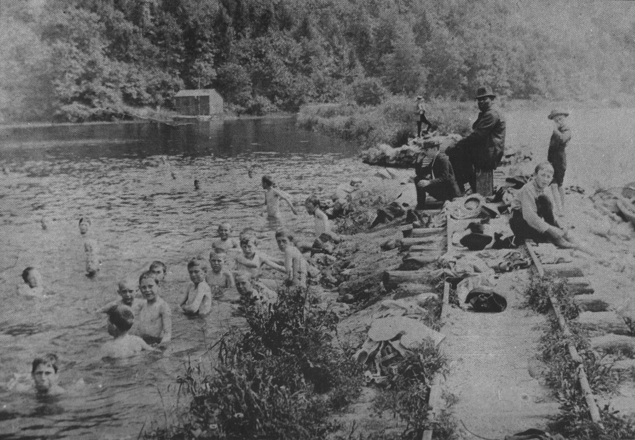 "Uncle Abram" Hallenback, who with his brother William, taught three generations of area youngsters to swim at Annsville Creek, near the tracks that brought iron ore to the nearby blast furnace. The brothers died at the turn of the century and are buried in Cortlandt Cemetery.